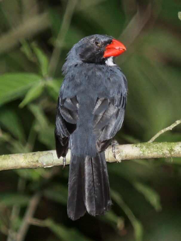 Slate-Coloured Grosbeak (Saltator grossus). Taken in Panama.